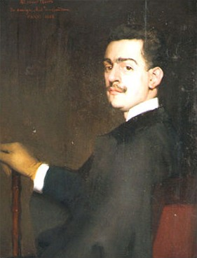 de Yturri was secretary and lover of Robert de Montesquiou (1855-1921)